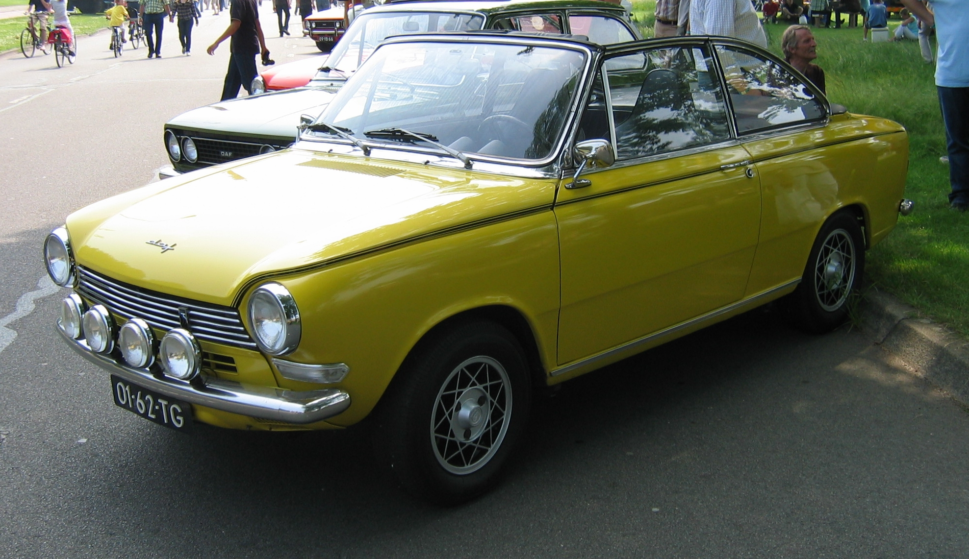 A DAF 55 at the DAF exposition during the Eindhoven Pole Position weekend.